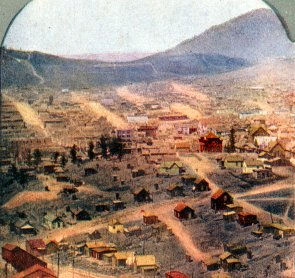 Cripple Creek, scanned from stereopticon c. 1900